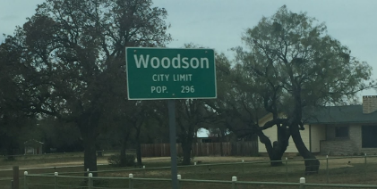 Though Woodson's population once grew to 2,800, it has recently stayed between 250 and 300.